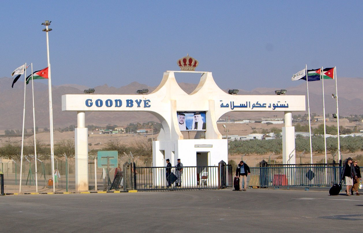 Arava (Israel) - Aquaba (Jordan) border crossing - Israeli checkpoint